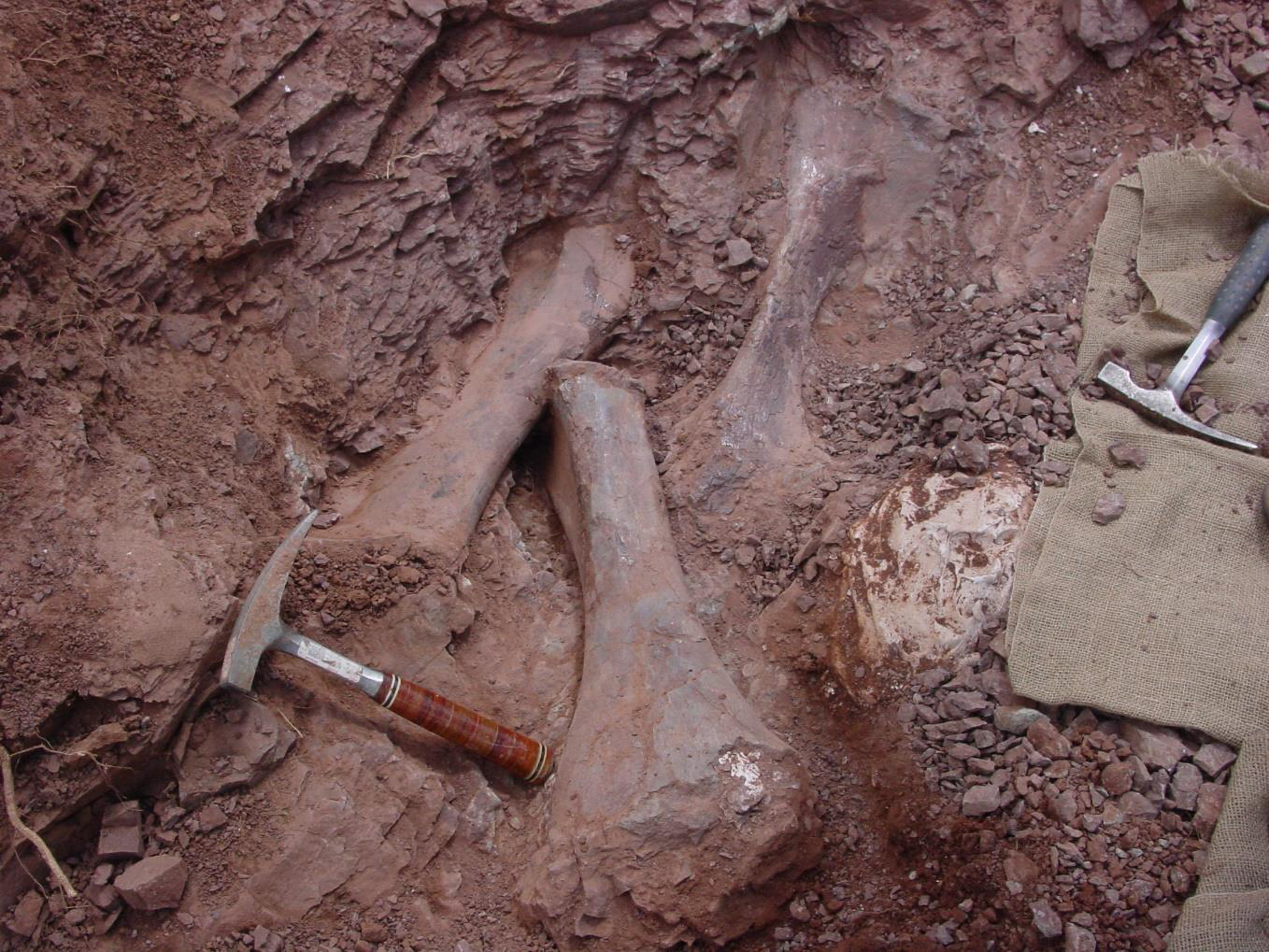 Spion Kop quarry. Tibiae and ischium in situ. Photograph by MFB.